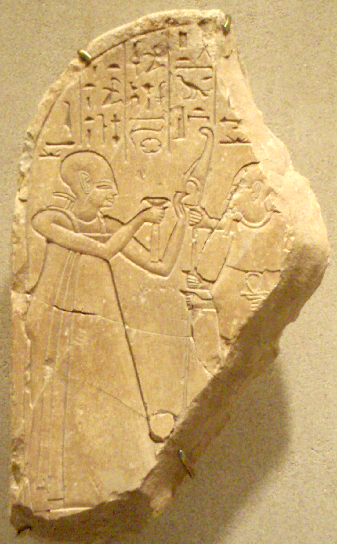 Votive stela of Vizier Naferrenpet before Ptah - Stela from the 19th dynasty, near the end of the reign of Ramesses II, circa 1247-1237 B.C.